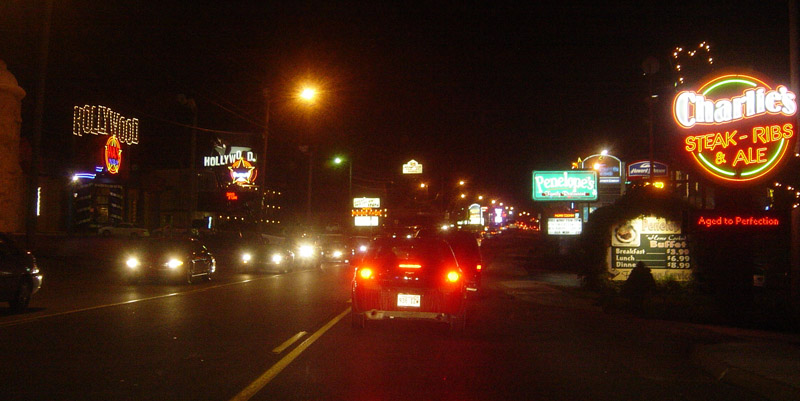 "The Strip" (Highway 76) in Branson, Missouri. Photo taken by Bobak Ha'Eri. September 1, 2006. Please observe license and properly cite in use outside Wikipedia.